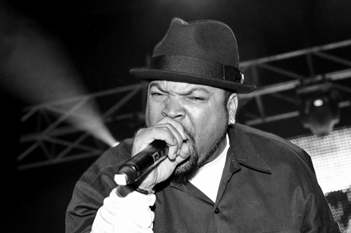 Ice Cube live in Metro City Concert Club